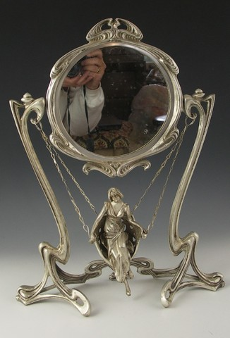 Roman de Tirtof's first work, made in 1907, at the age of 15 years, during a stay in Paris.